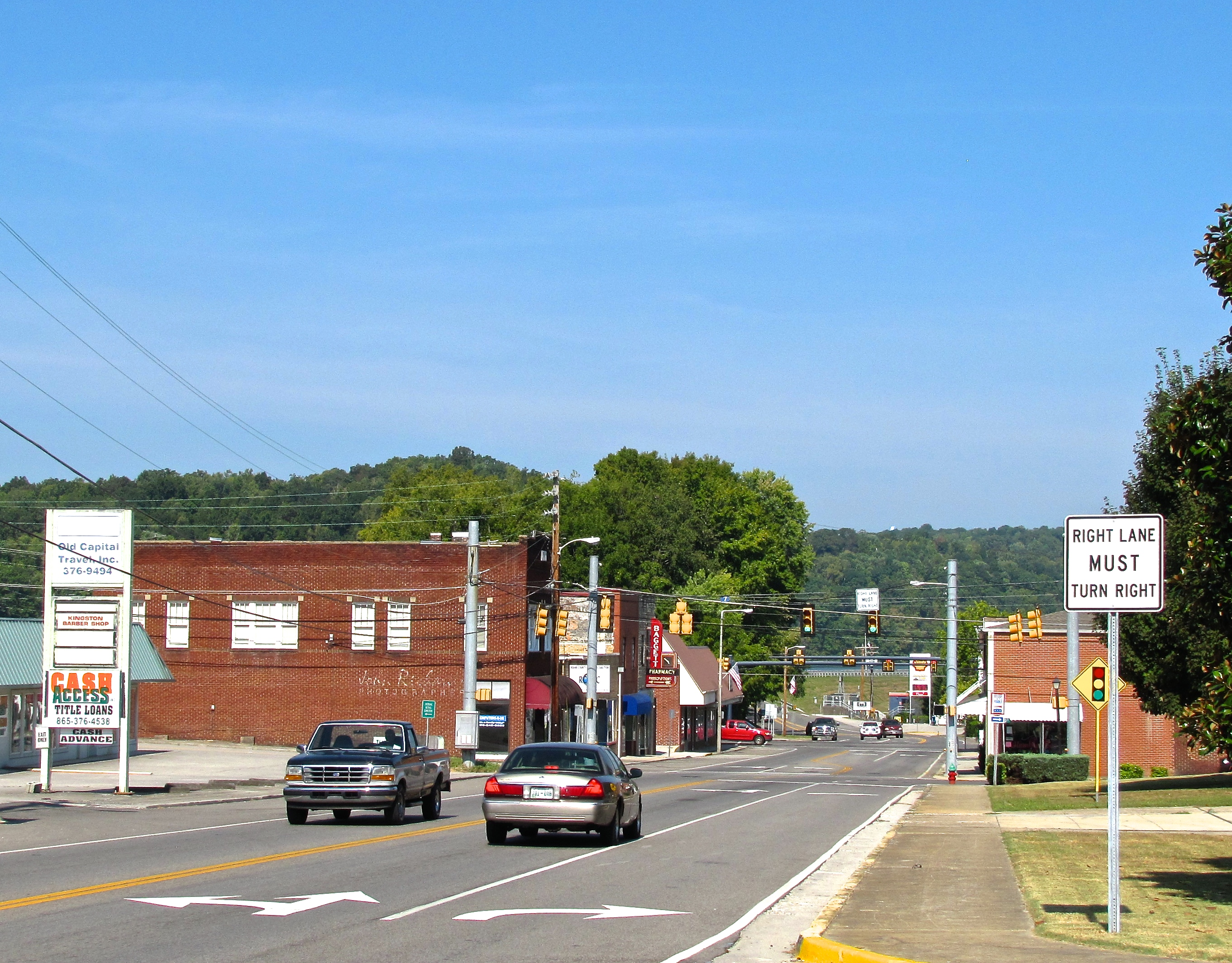 Buildings on U.S. Route 70 (Race Street) in Kingston, Tennessee, United States.